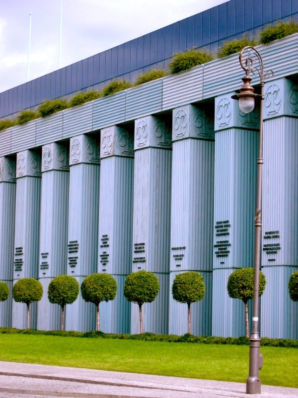 Supreme Court of Poland - photo by C. Szabla